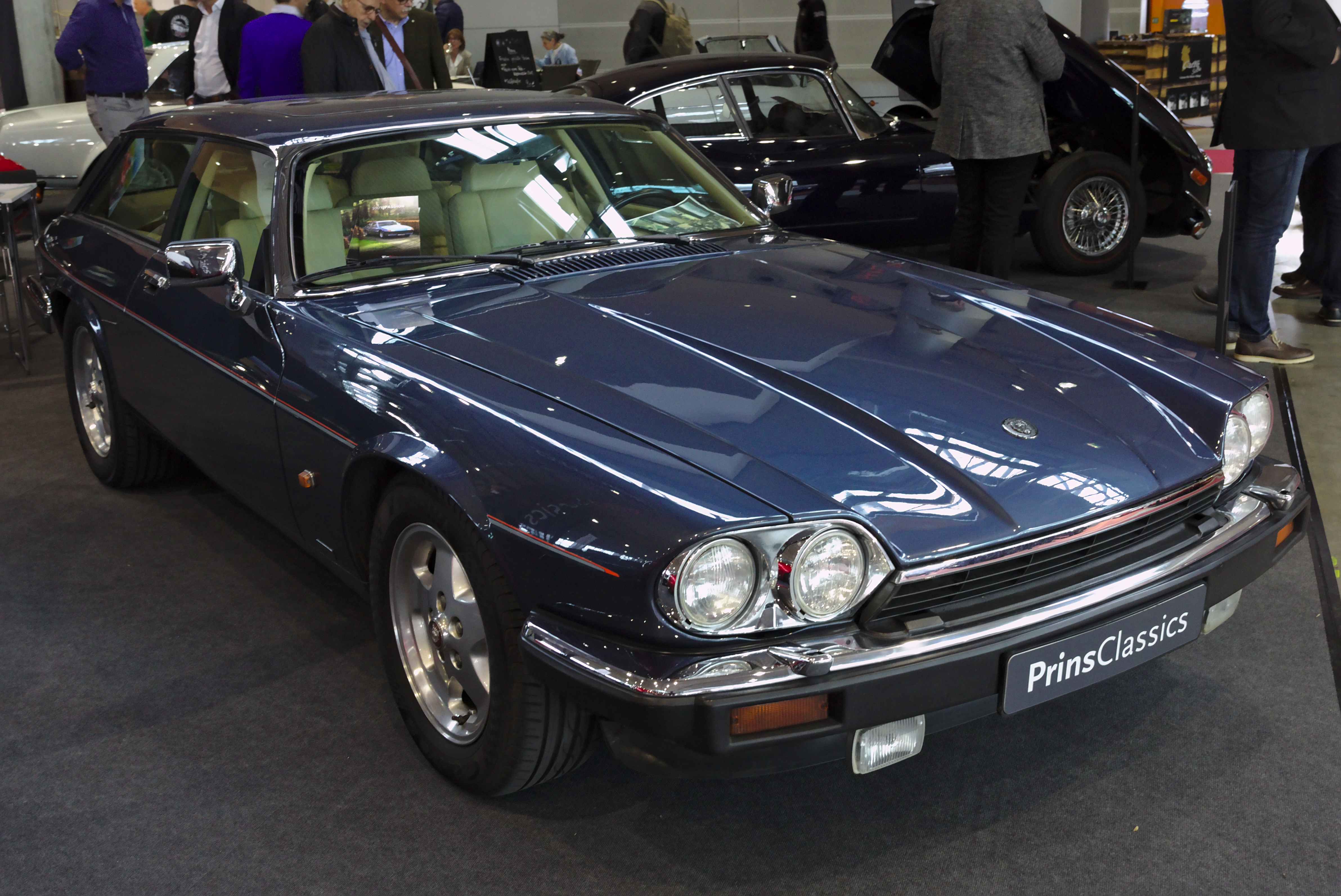 Lynx Eventer at Retro Classics 2019